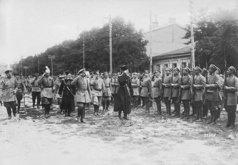 Pavlo Skoropadsky inspects troops from the "Graycoats" division